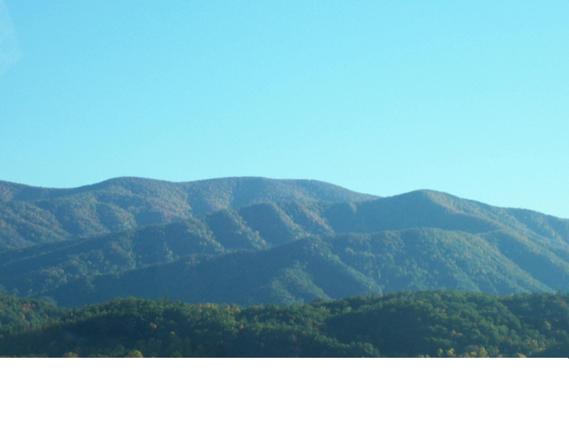 Picture of Cades Cove in the Smokey Mountains